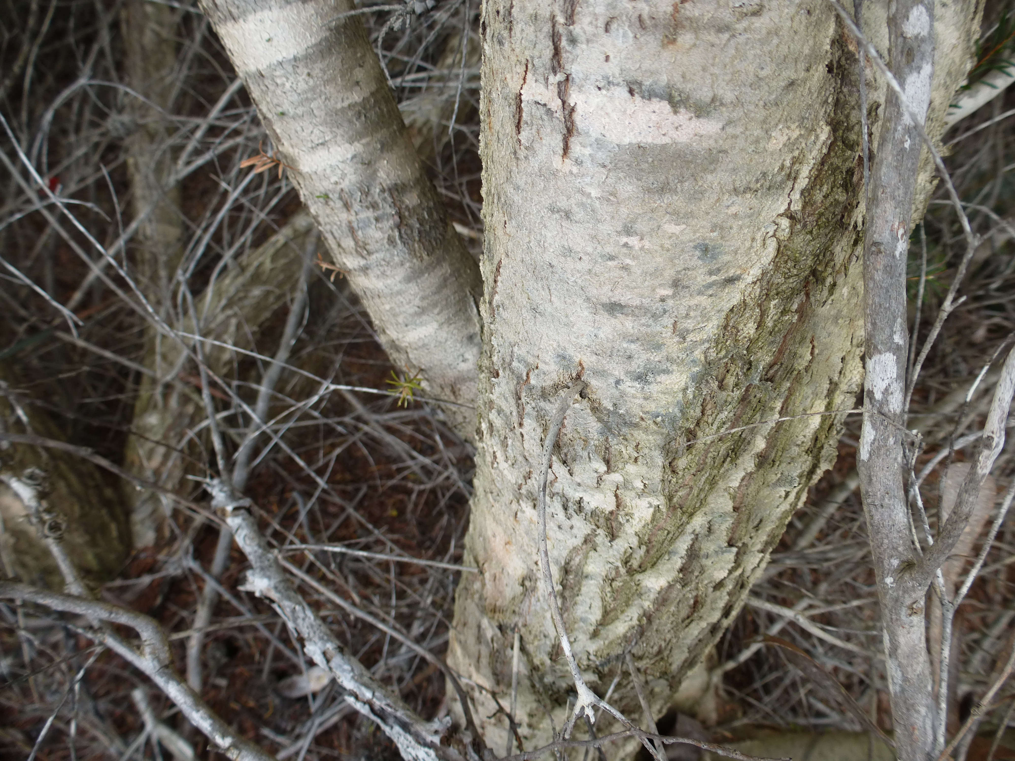 Melaleuca lutea growing near East Mount Barren